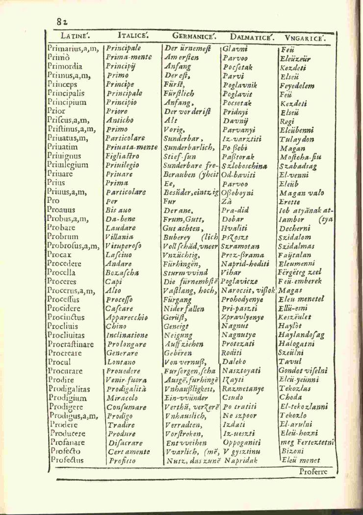 Page from 5-lingual dictionary by Faust Vrančić